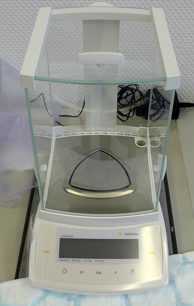 Scale of Sartorius